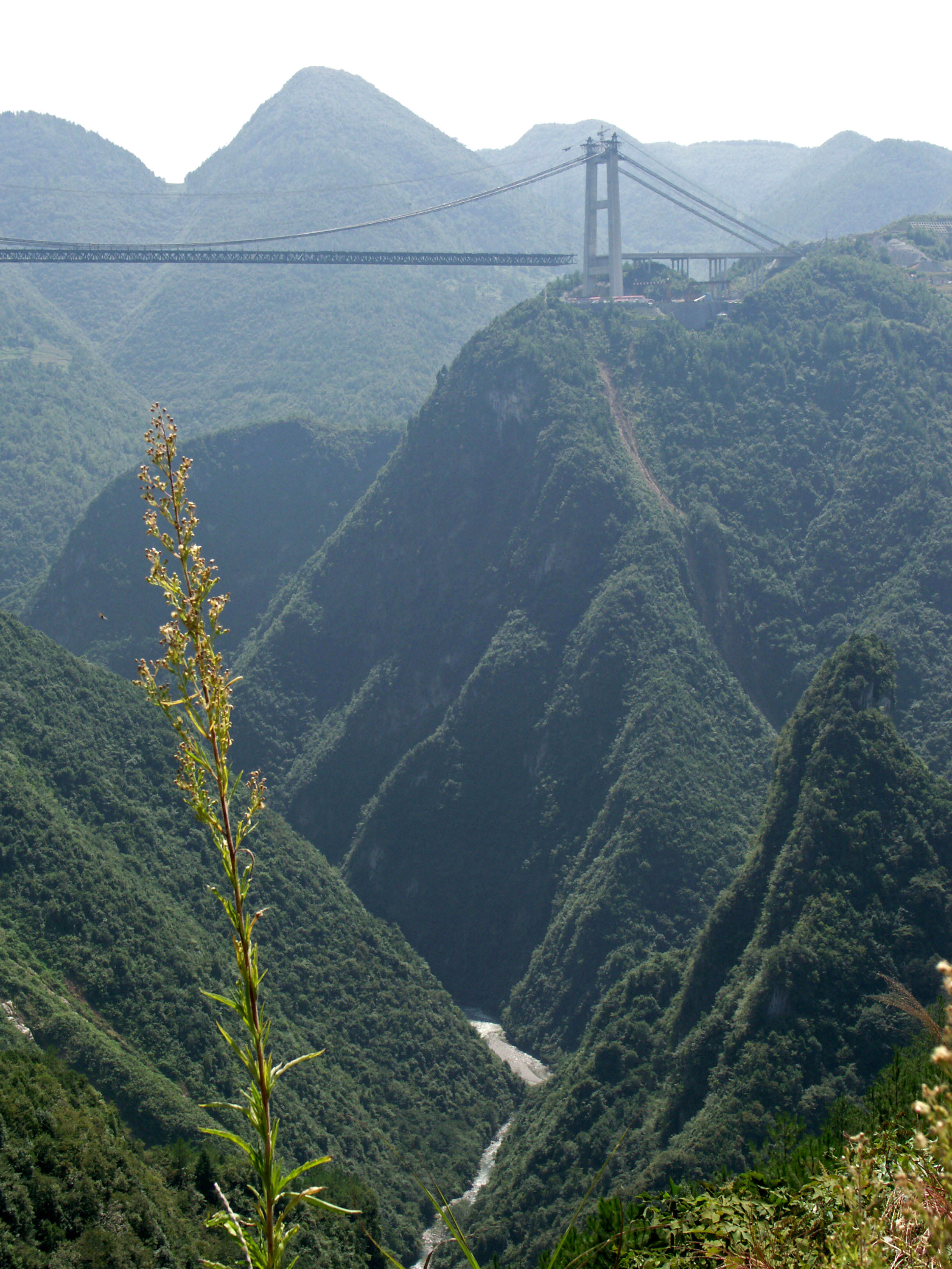 2008 Siduhe Bridge view looking south with the truss nearly complete.